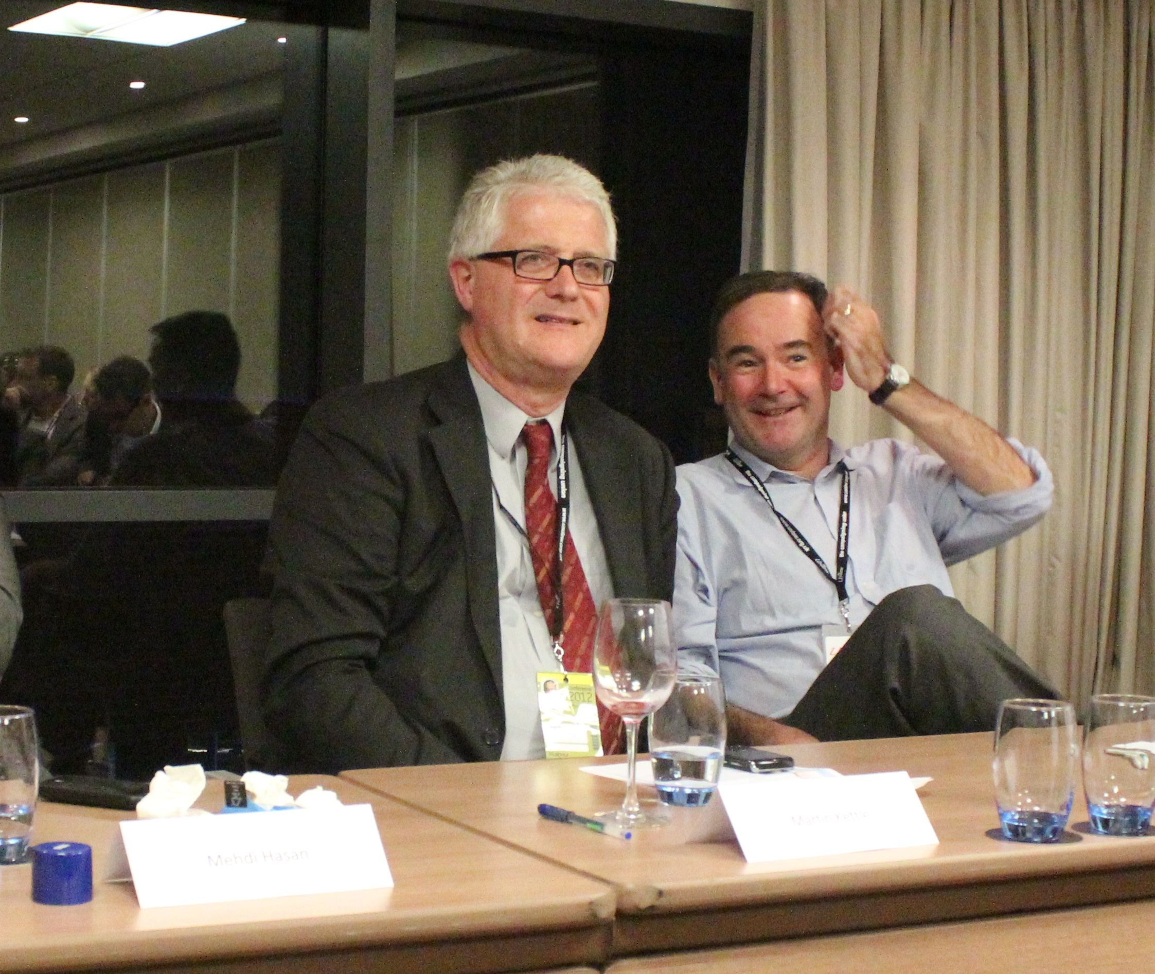 From left to right: Policy Exchange's Neil O'Brien, Mehdi Hasan - Huffington Post UK & biographer of Ed Miliband, Martin Kettle - Associate Editor, The Guardian, Jon Cruddas MP and Adam Boulton - Political Editor, Sky News